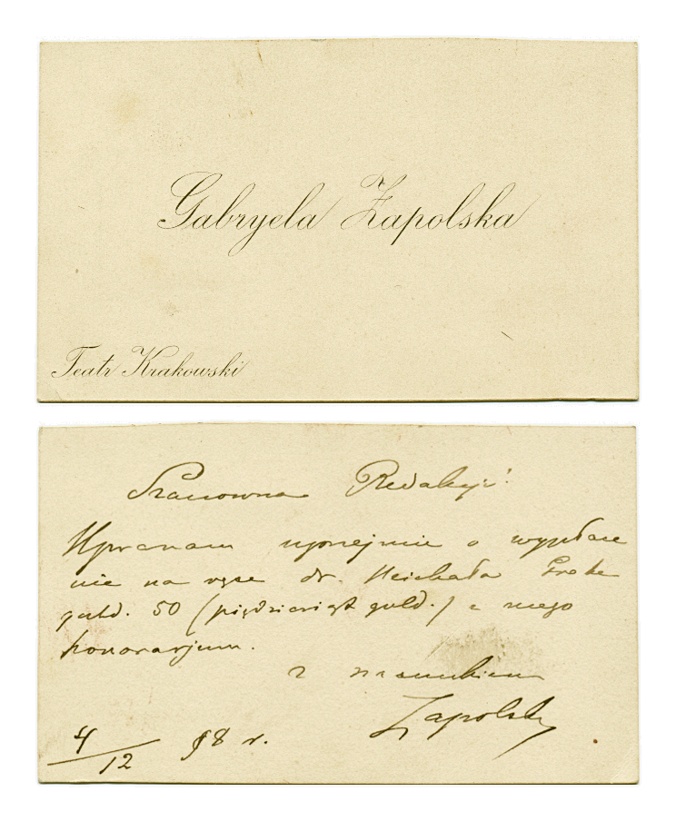 Gabriela Zapolska's visiting card with a hand-written letter on the reverse